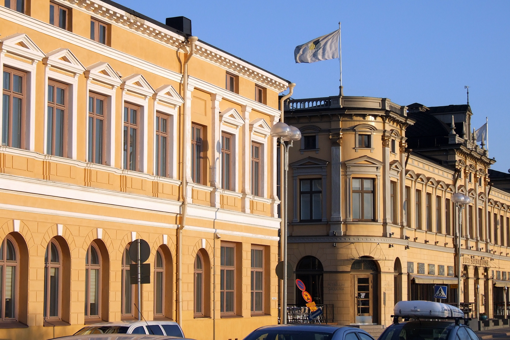 Rantakatu street in Oulu, Finland. Both of the buildings have been designed by architect Hugo Neuman and completed in 1884.